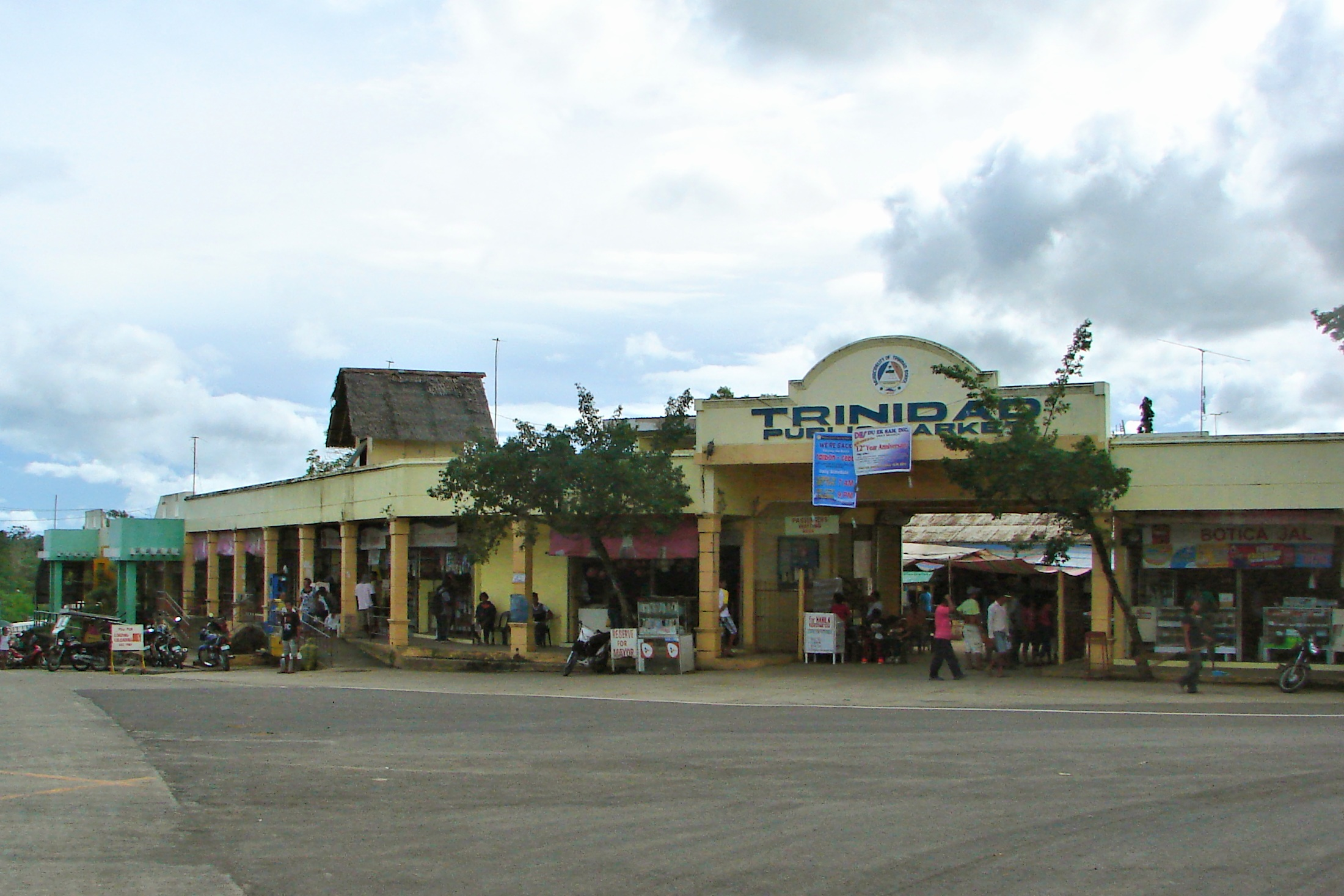 Public market of Trinidad, Bohol, Philippines